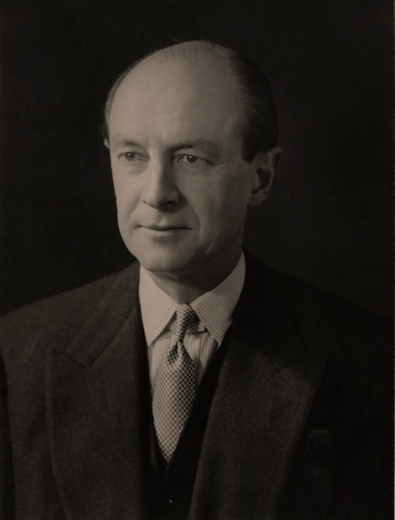 Hendrie Dudley Oakshott, Esquire